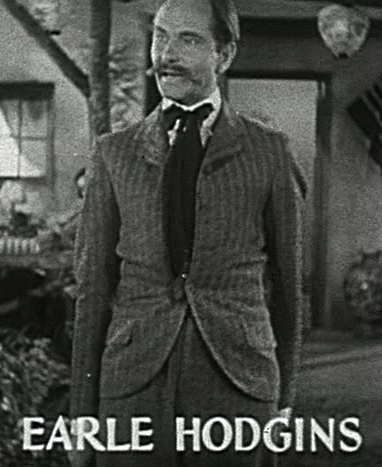 Snapshot from Oh, Susanna! (1936)